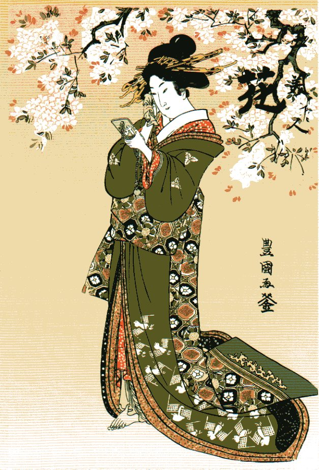 Scanned into computer on May 1, 2010.